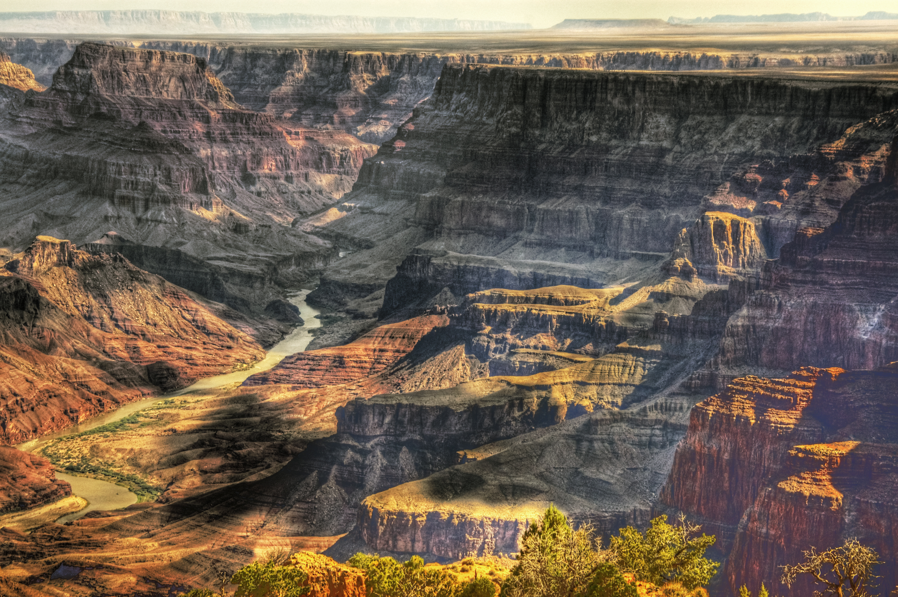 Colorado River in Grand Canyon